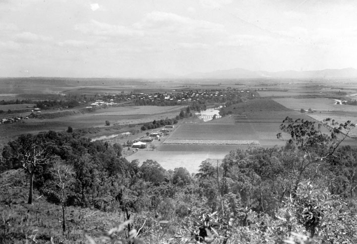 General View showing Bureau of Tropical Agriculture, South Johnstone, Innisfail.